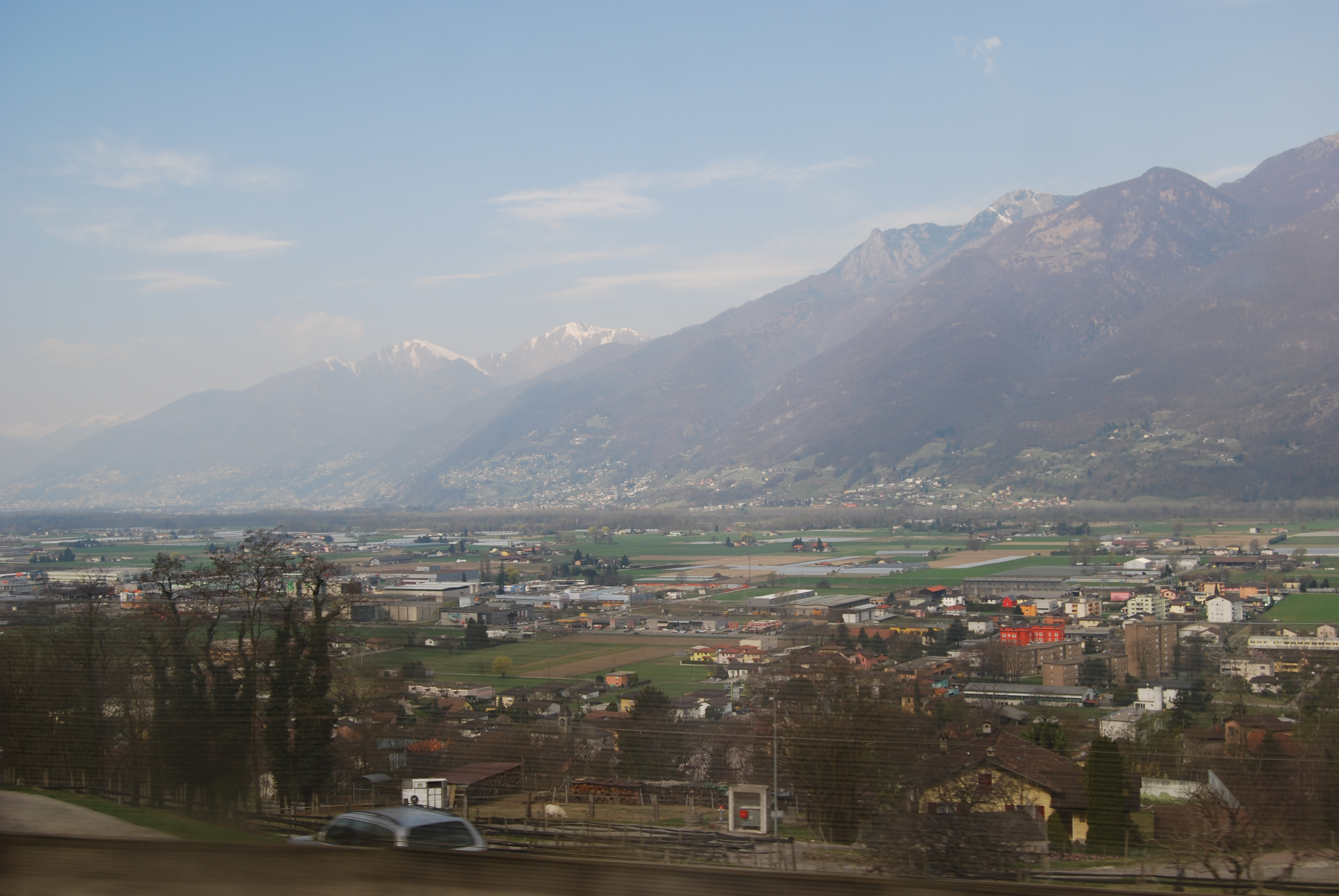 Cadenazzo, canton of Ticino, SwitzerlandEsperanto: Cadenazzo, Kantono Tiĉino, Svislando